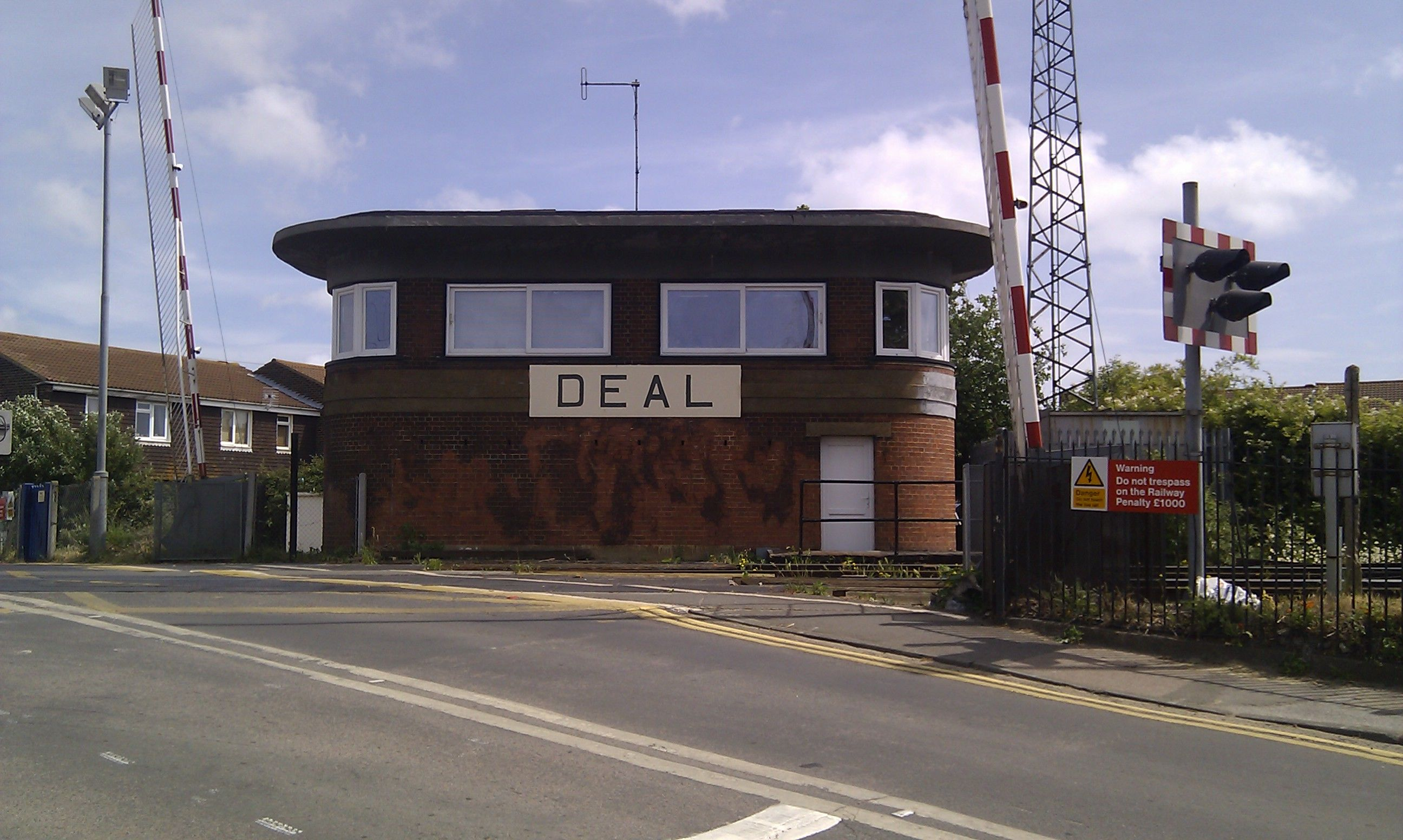 This is the 1939 signal box situated at the level crossing on Western Road. It is a rare example of a Southern Railway Type 13 odeon-style glasshouse signal box.